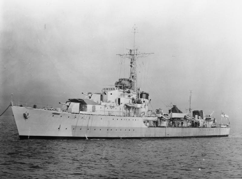 Photograph of British C class destroyer HMS Chequers.